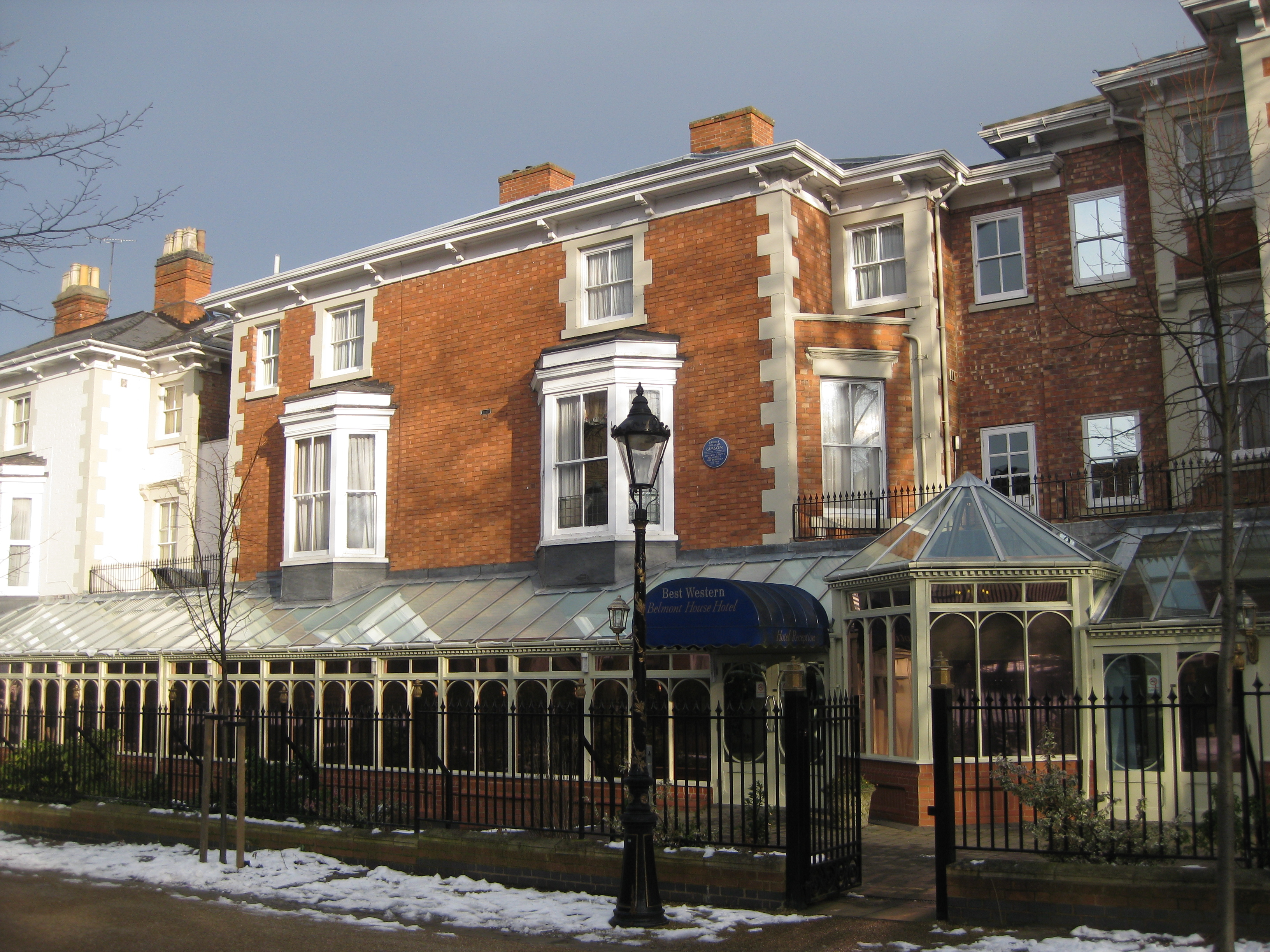 118 New Walk, Leicester, home of Ernest Gimson, showing a blue plaque commemorating this fact